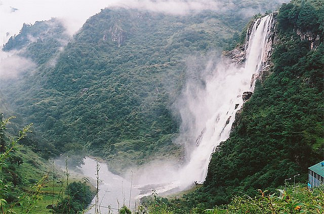 Nuranang falls, also known as Bong Bong falls or Jang falls, Arunachal Pradesh, India.